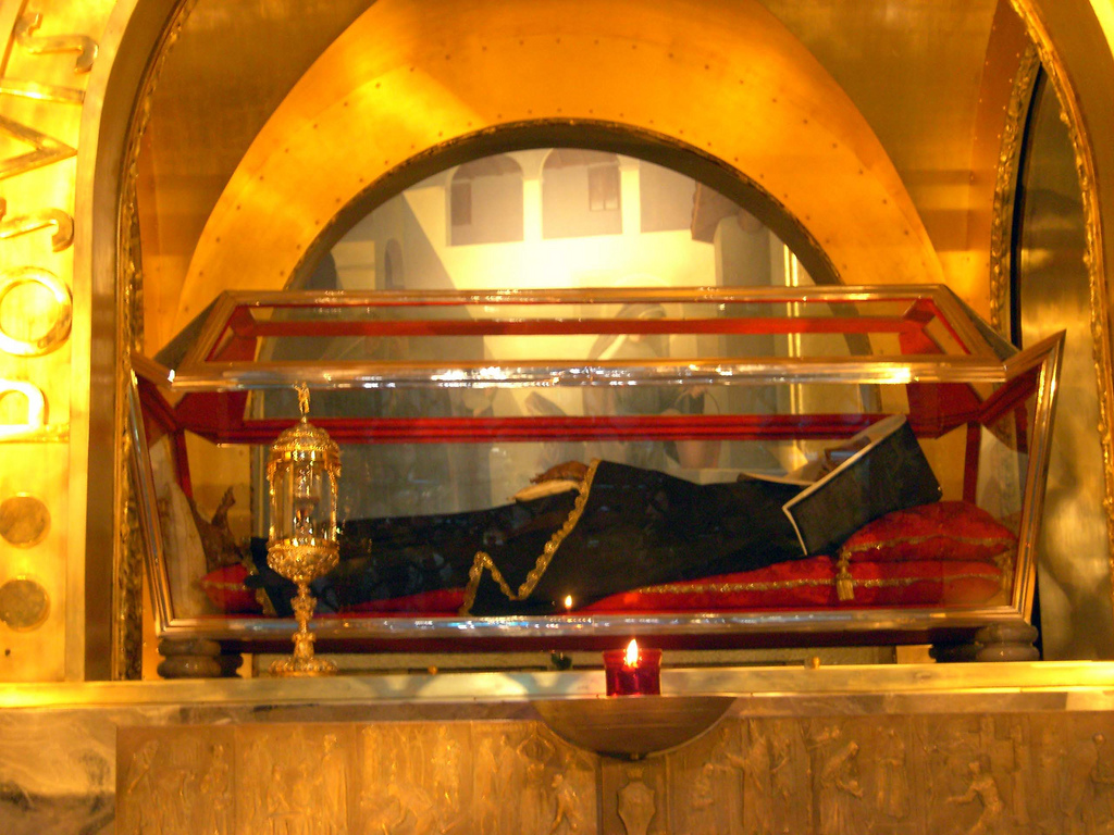 Saint Rita's incorrupt body at her tomb at Cascia.